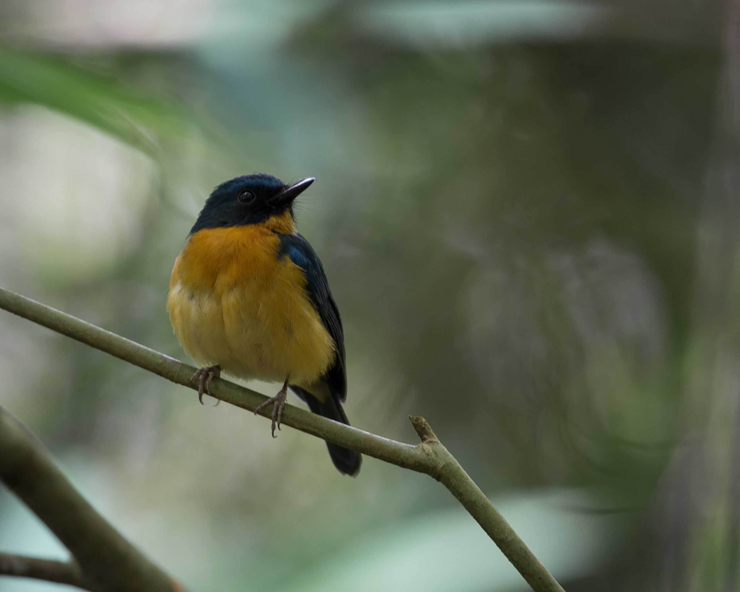 Sulawesi Blue Flycatcher, Tongkoko, North Sulawesi, Indonesia.